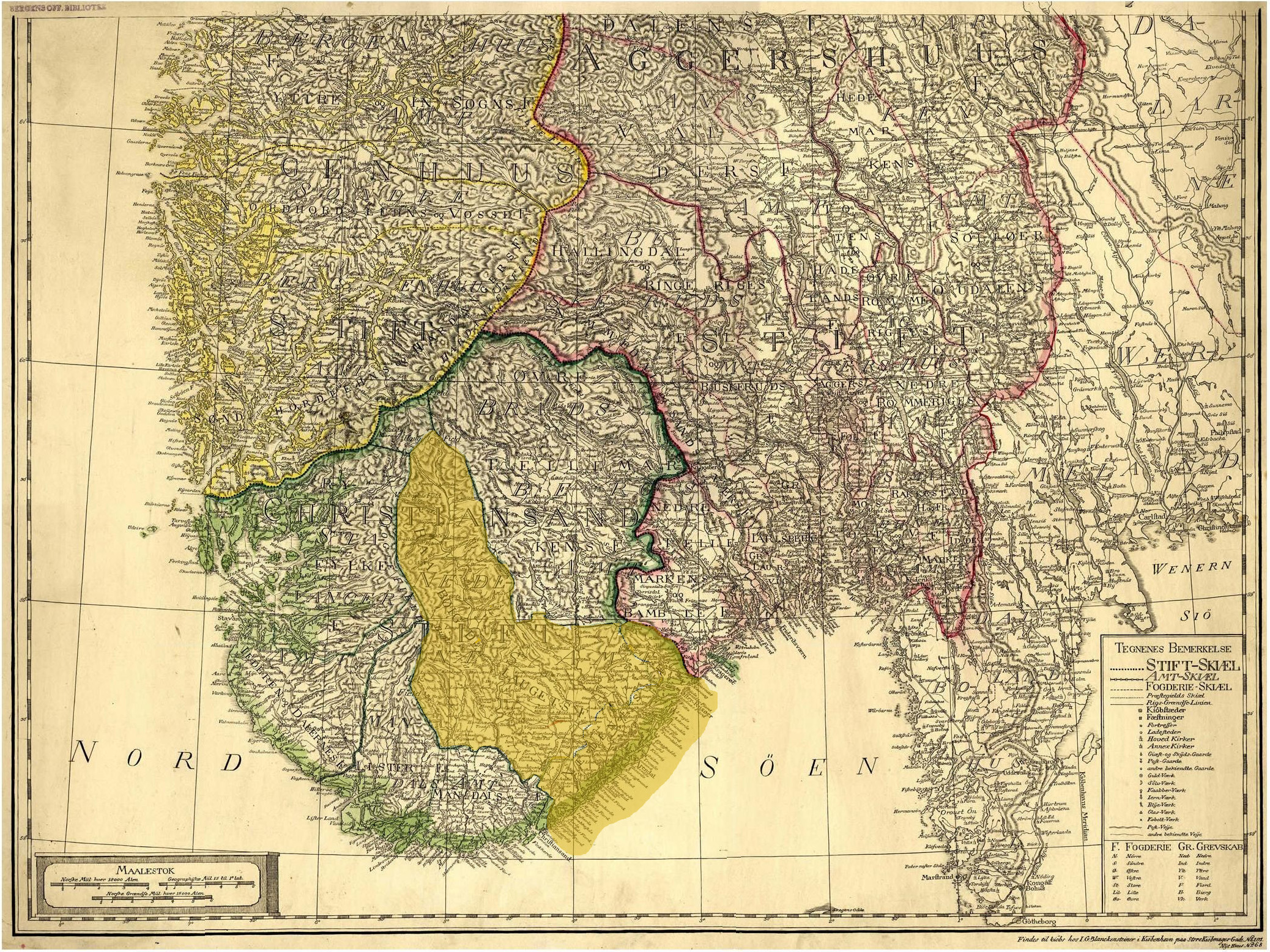 Nedenaes amt. Made from Pontoppidans map from 1785